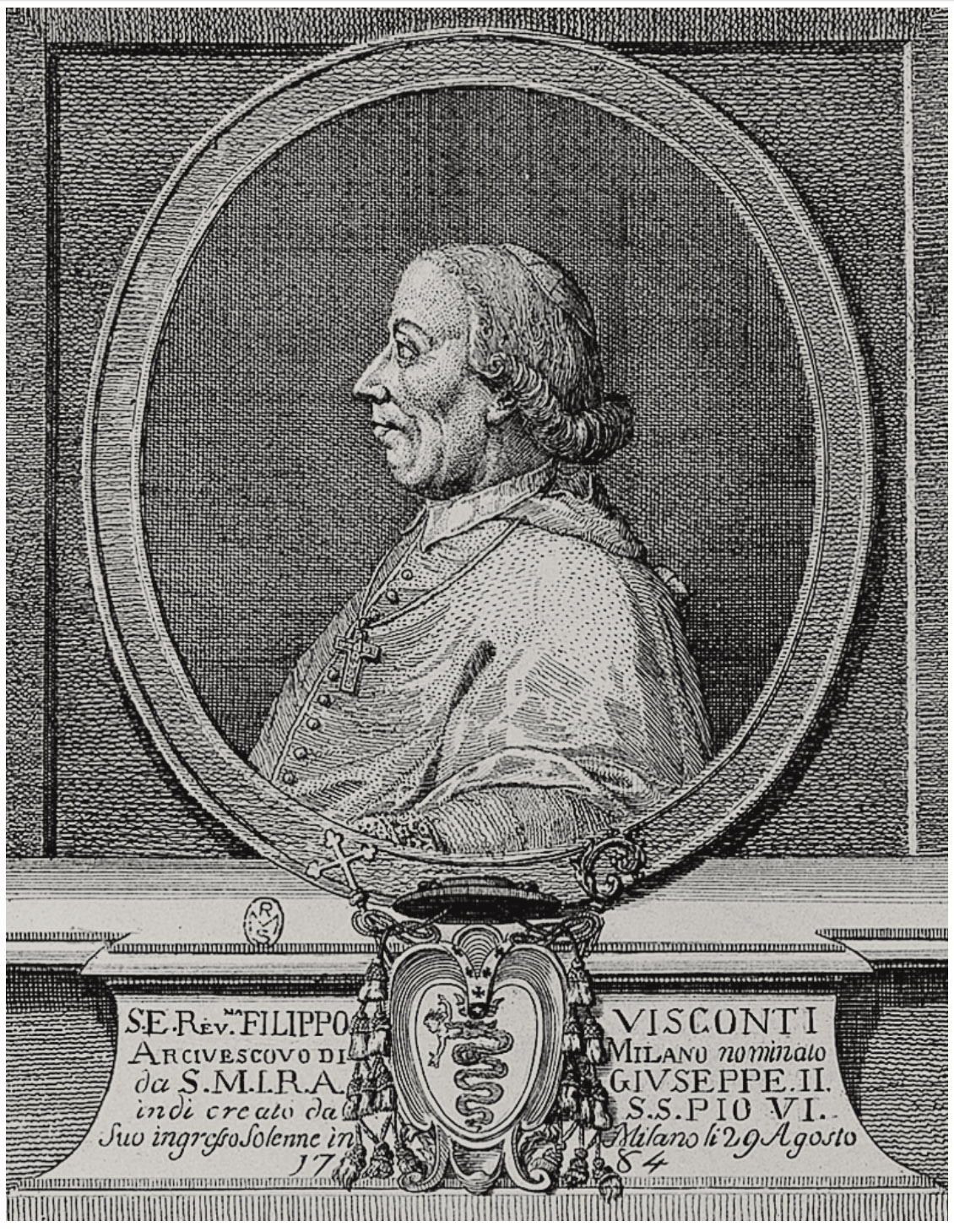 Portrait of Filippo Visconti (1721-1801), Arcbishop of Milan